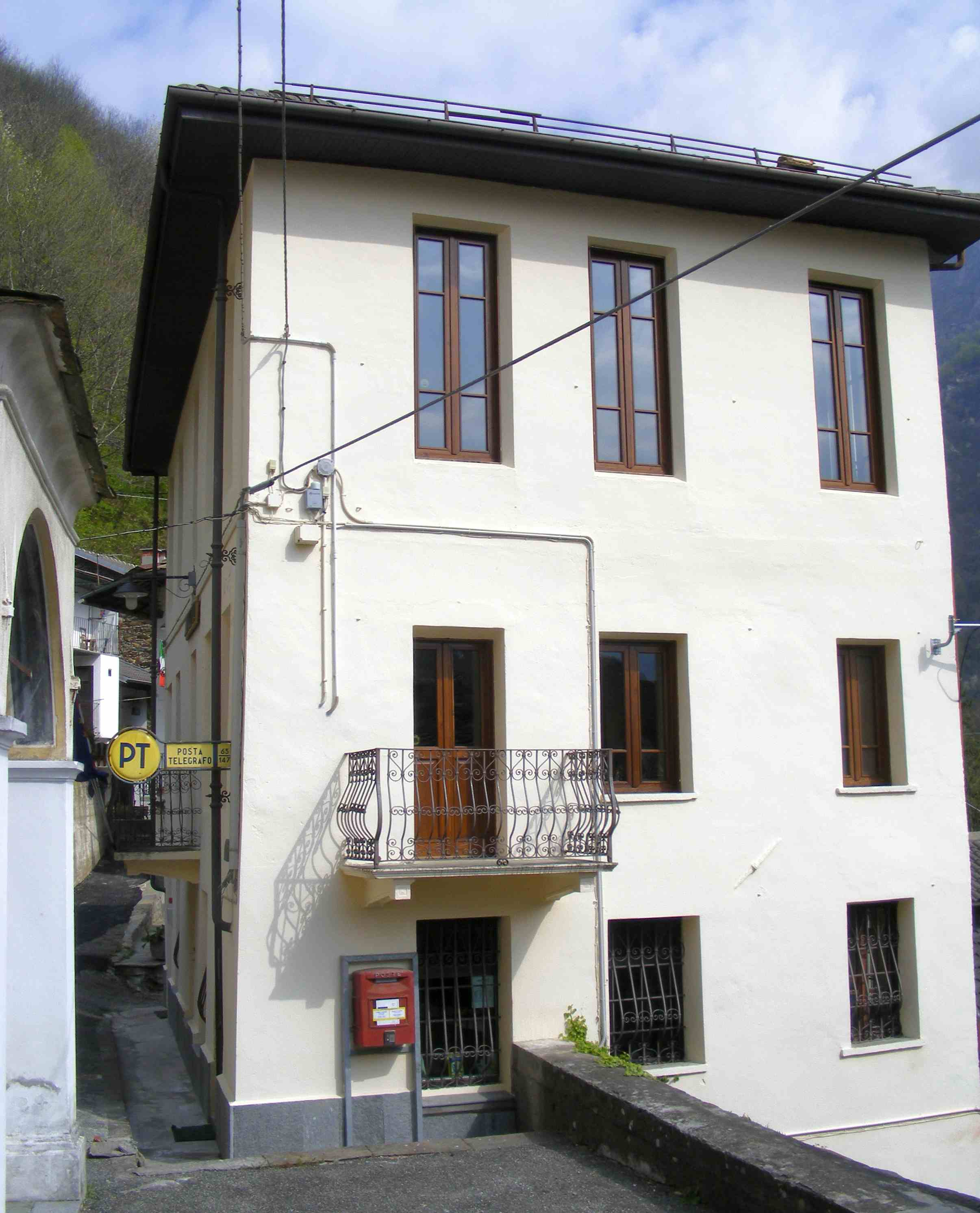 Ingria (TO, Italy): town hall